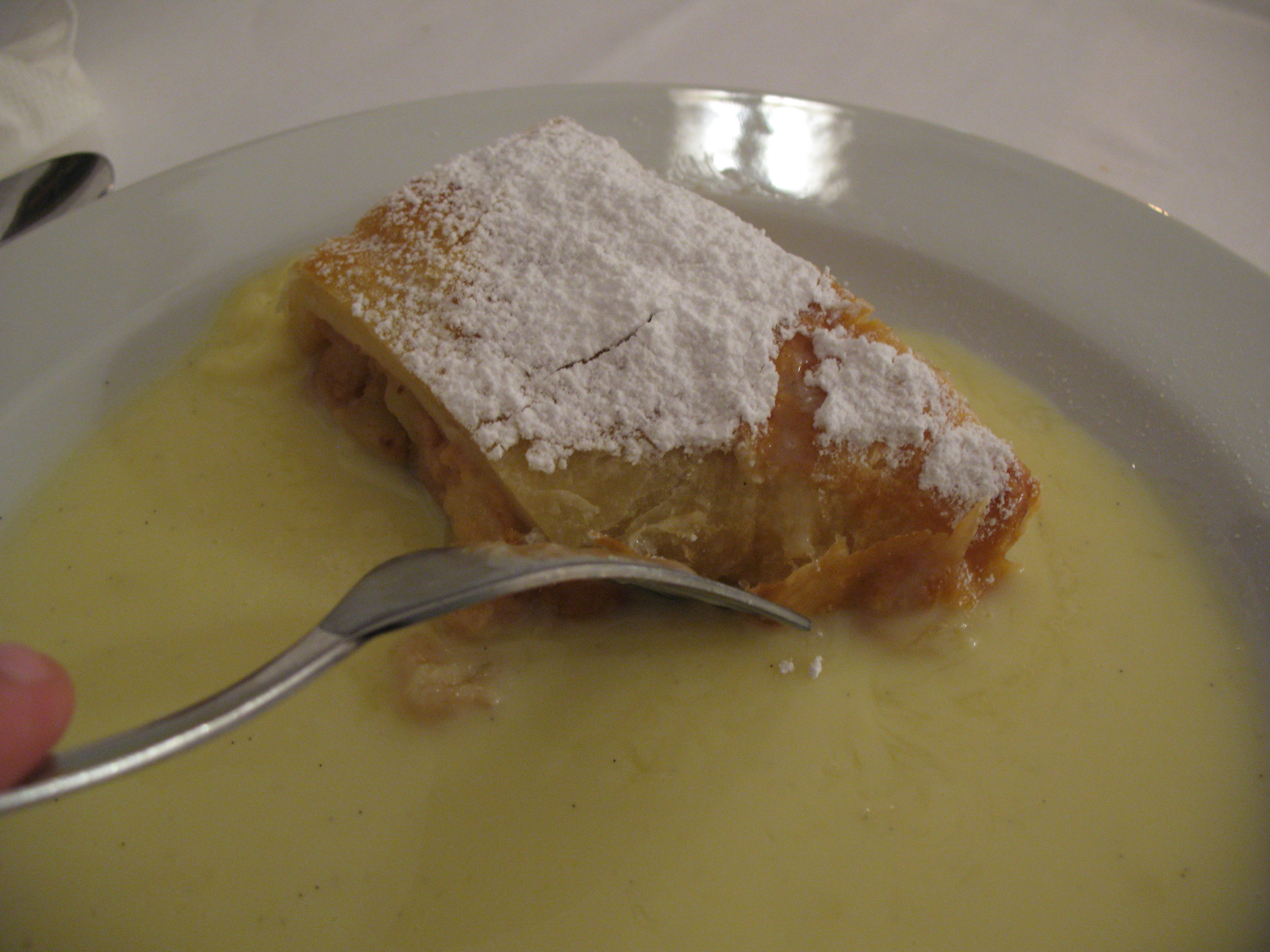 Apple Strudel with Vanilla Sauce, Obertraun, Austria